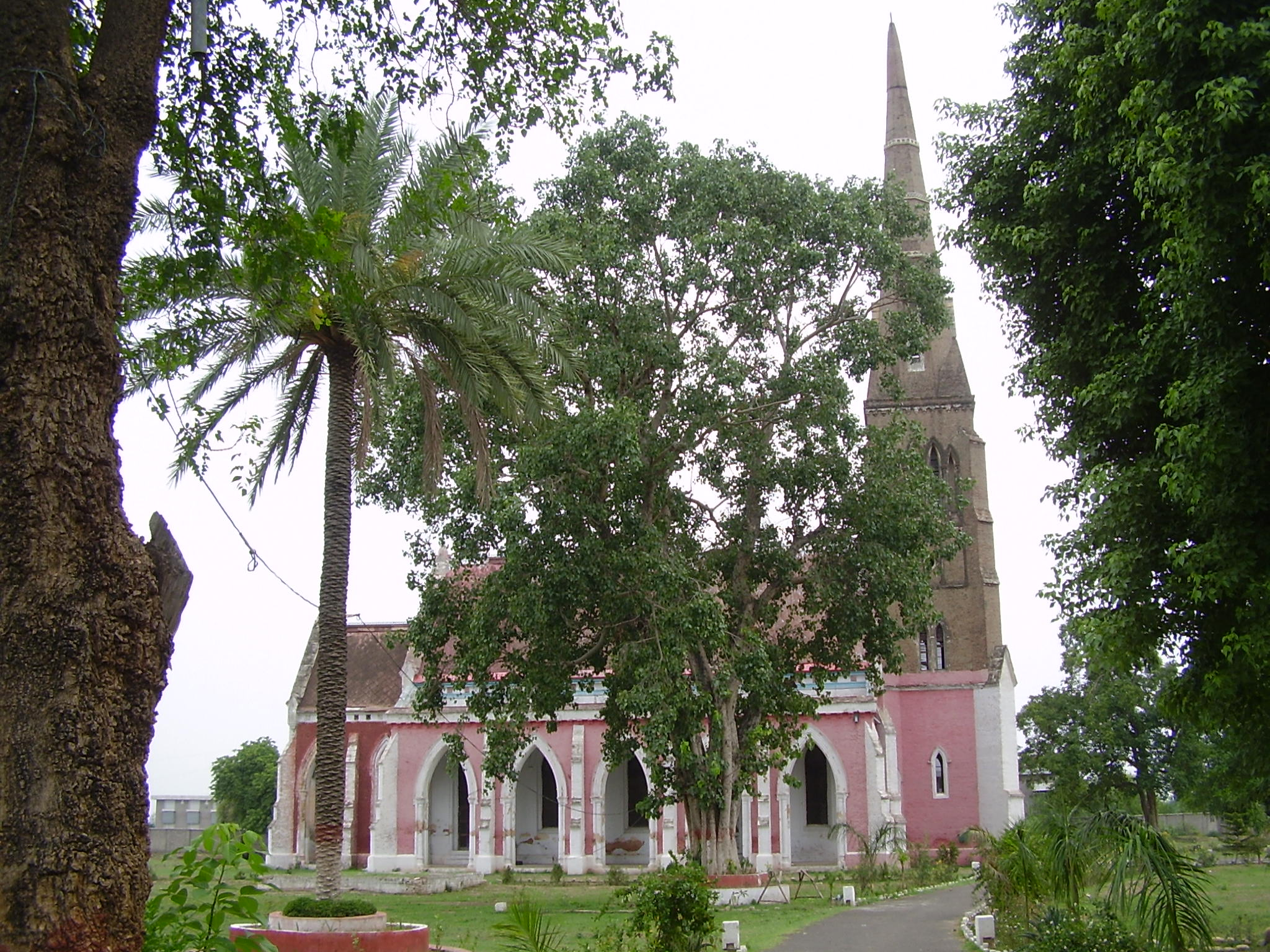 St._John's_Church_Jhelum Pakistan